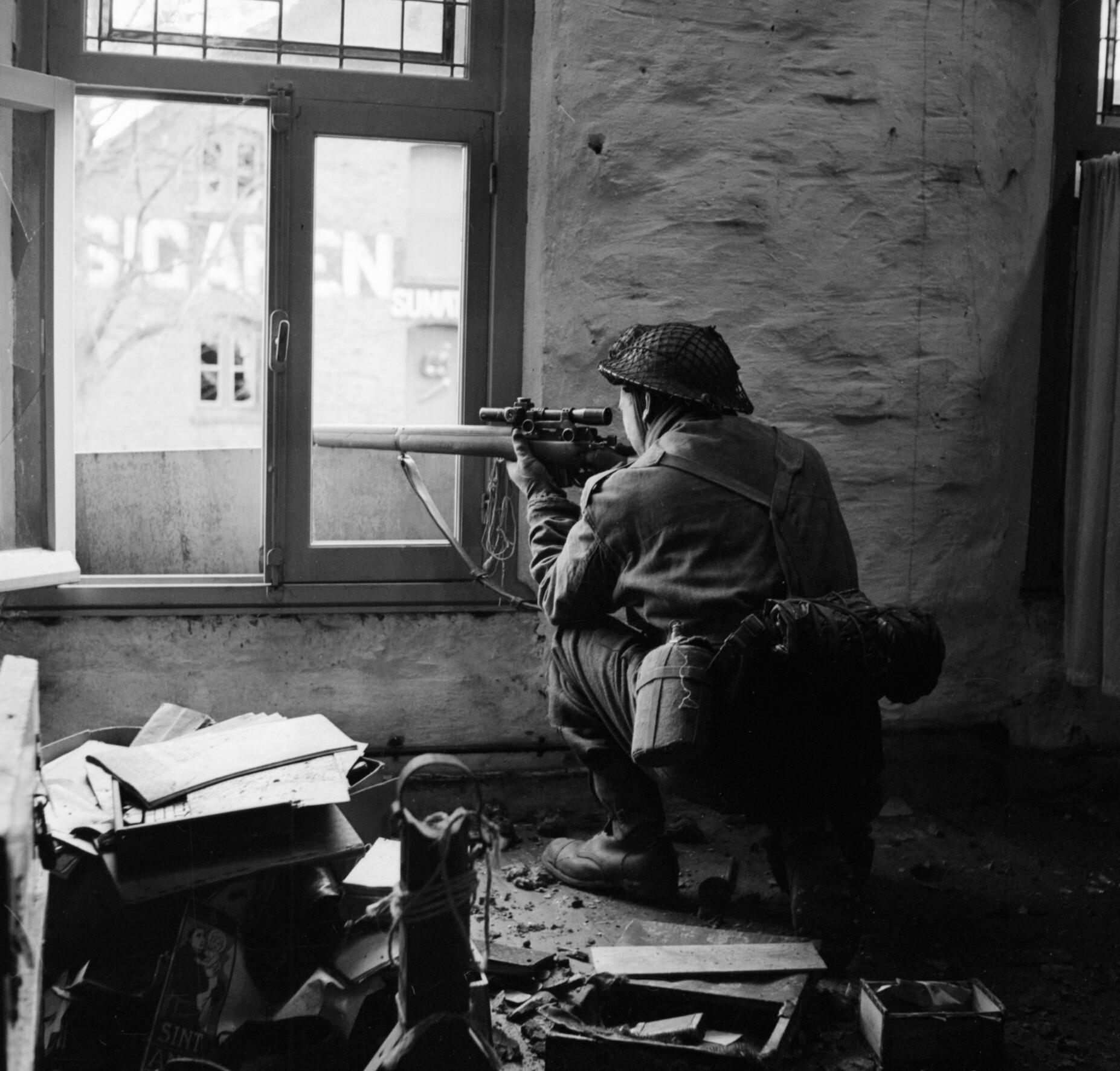 A sniper from "C" Company, 5th Battalion, The Black Watch in position in a ruined building in Gennep, Holland, 14 February 1945. A sniper from "C" Company, 5th Battalion, The Black Watch , 51st (Highland) Division, in position in a ruined building in Gennep, Holland, 14 February 1945.